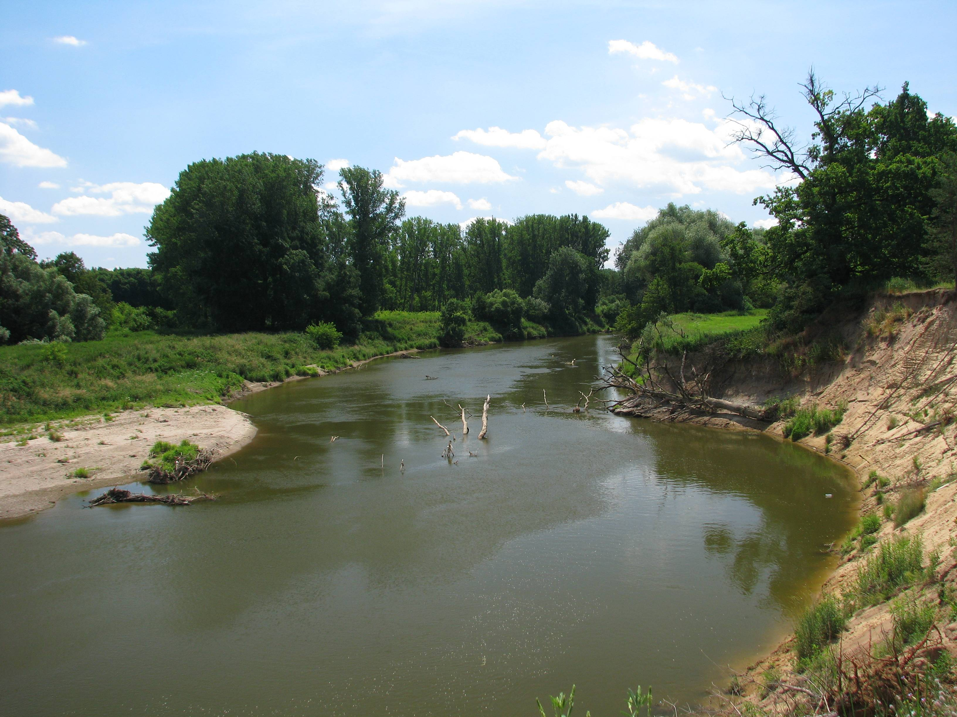 Osypané břehy - Nature Reserve